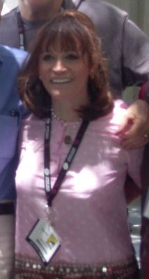 Cropped version for infobox. Overwrite if better is found